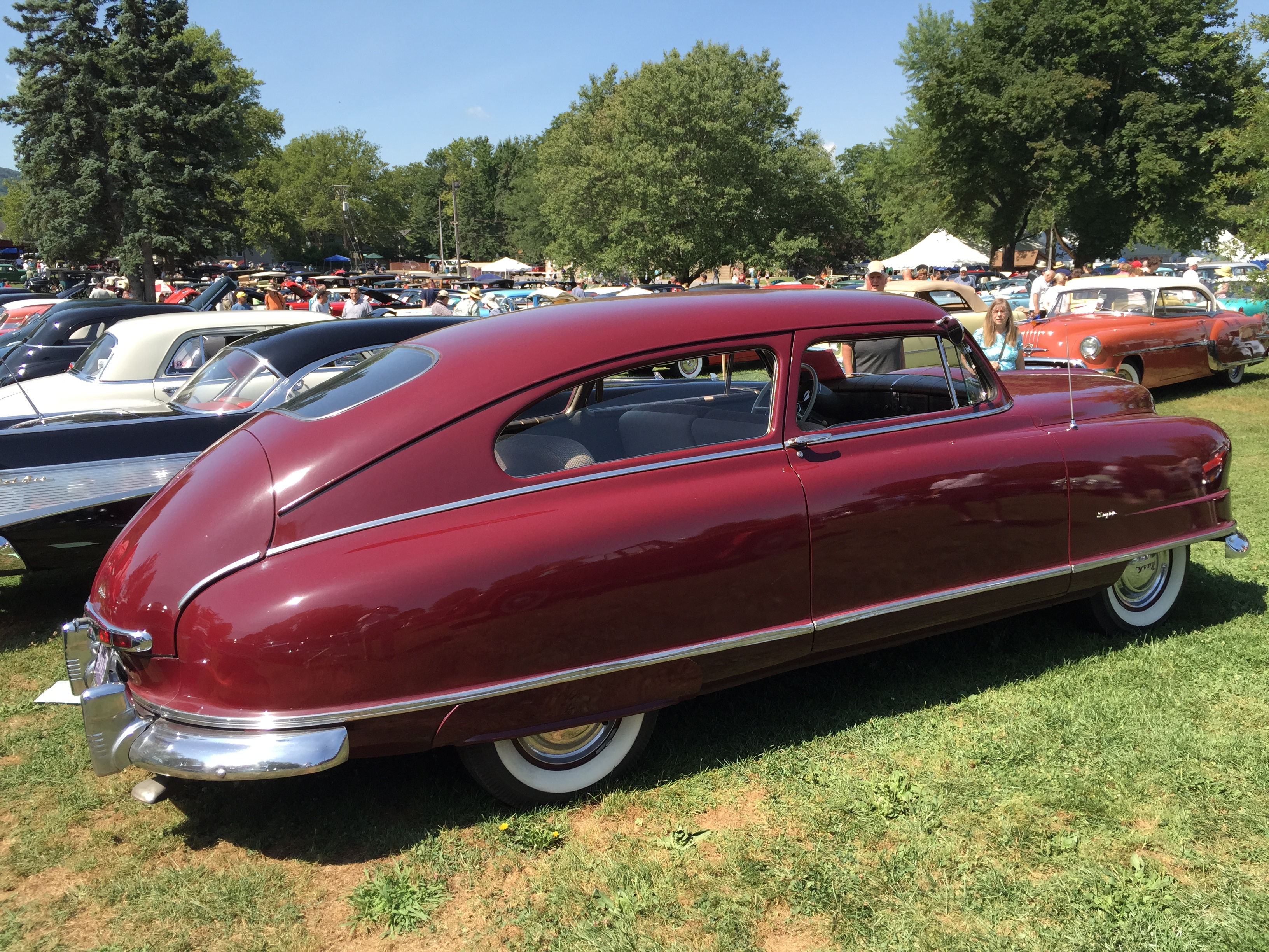 1949 Nash 600 Super two-door, a full-size car and a fresh new design after World War II in the aerodynamic Airflyte series. The solid unit-body shape riding on a 112-inch (2,845 mm) wheelbase was the most streamlined form on the road at the time. This car is in the "base" Super series (moving up in trim were the Super Special and the top-line Custom). All had cavernous interiors featuring Nash's "Super-Lounge" design, a swept away dashboard, and for the driver, an unusual "Uniscope" instrument pod mounted on the steering column. Picture taken at the 52nd Annual "Das Awkscht Fescht" held in Macungie, Pennsylvania.